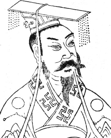 Portrait of Liu Bei, maybe Ming Dynasty.